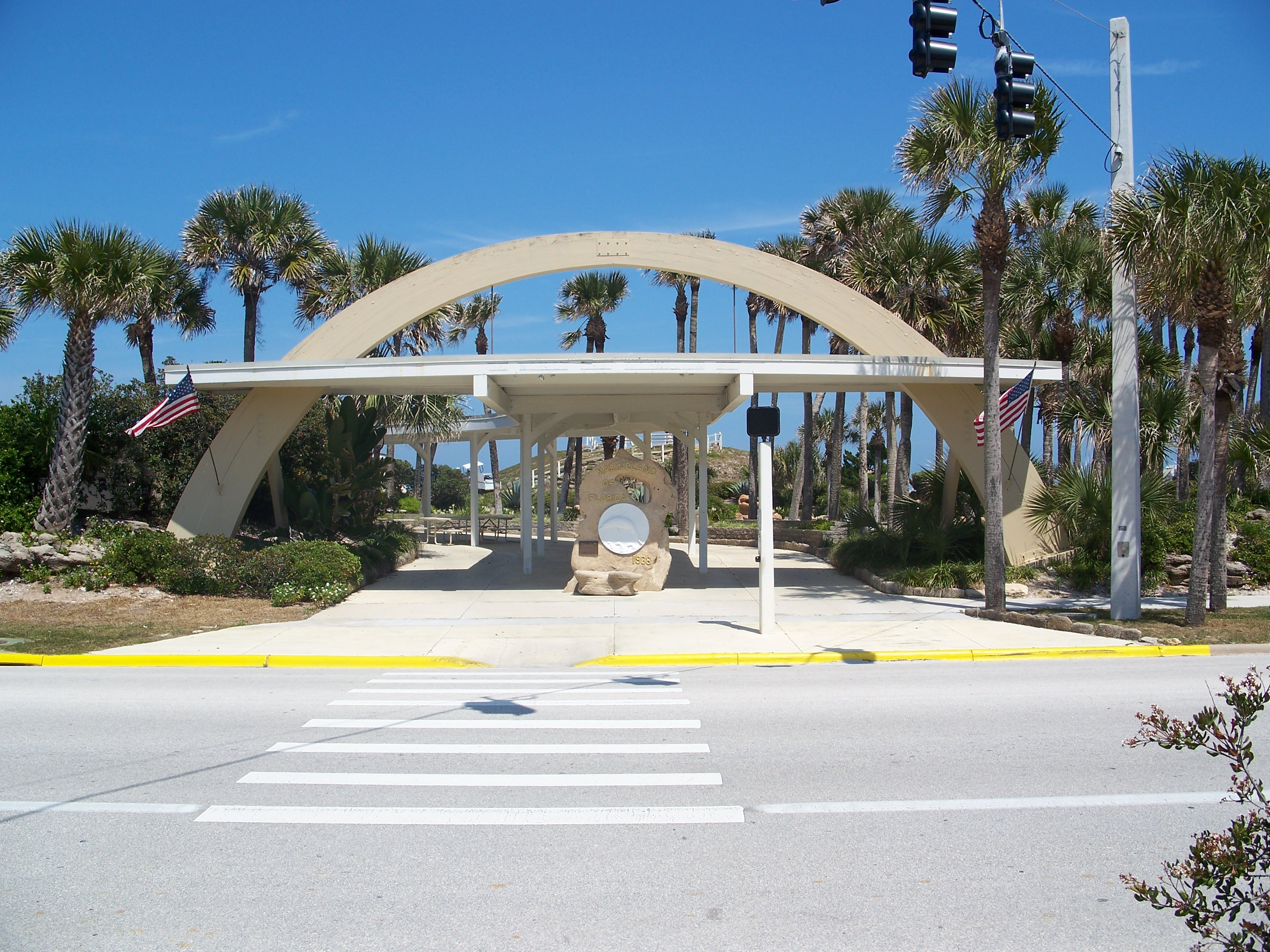 Entrance to Marineland, in Marineland, Florida